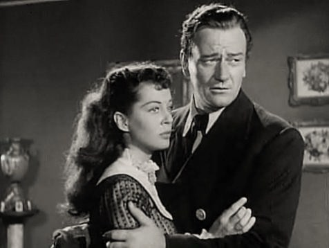 Gail Russell and John Wayne in Wake of the Red Witch (1948) - trailer (cropped screenshot)